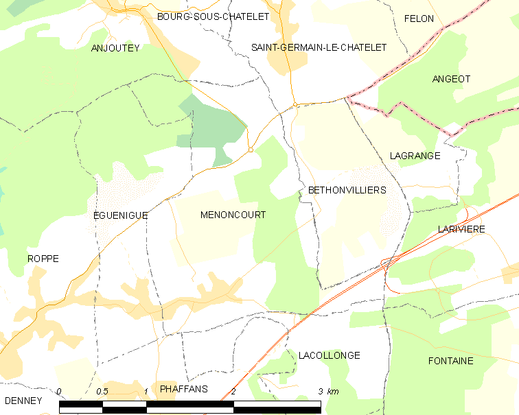 Map of French municipality Menoncourt